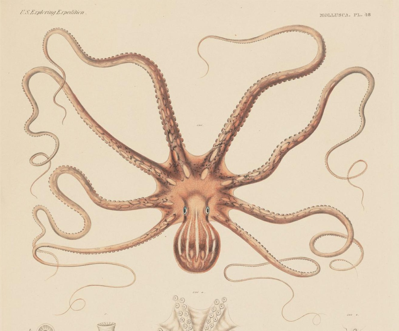 Gould, A.A. 1852. United States exploring expedition during the years 1838-1842. Mollusca and Shells. U.S. Exploring Expedition, 12: i-xv, 1-510; 1852, with an Atlas of plates, 1856. Callistoctopus ornatus (synonym: Octopus ornatus, Plate 42